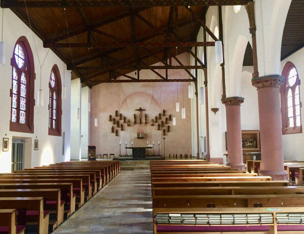 Interior of Saint Elisabeth (Bockenheim)